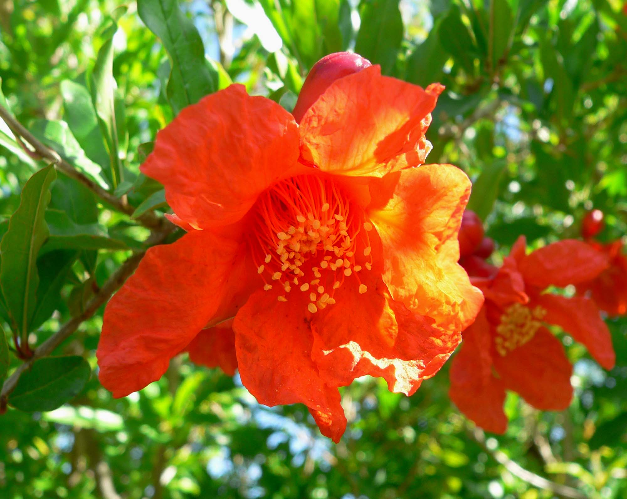 Photo of Punica granatum flower at the Springs Preserve garden in Las Vegas, Nevada